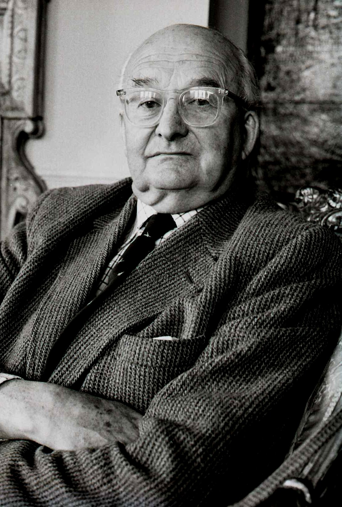 Portrait of The 8th Duke of Leinster at his home in Oxfordshire, England